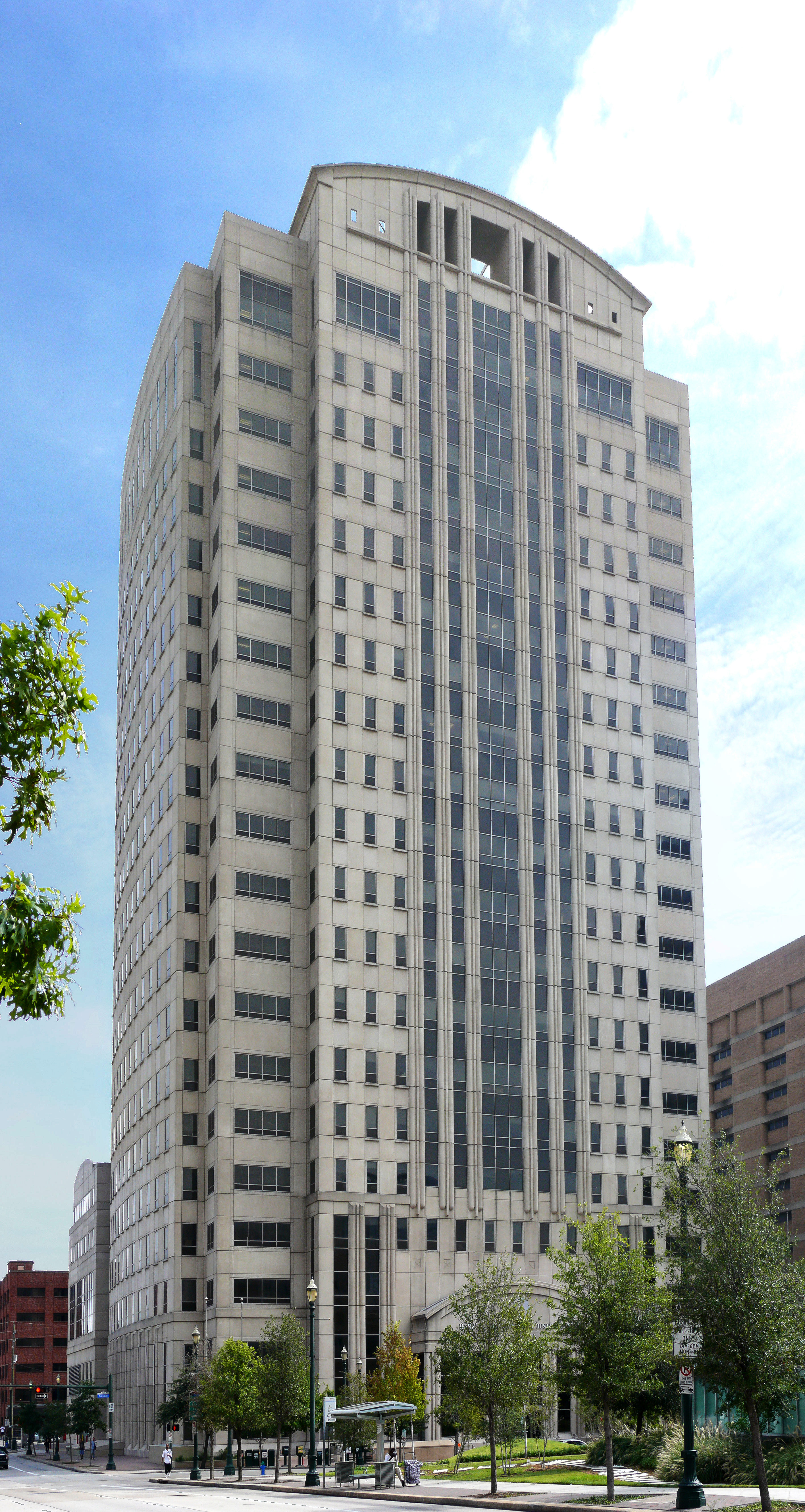 Harris County, Texas Criminal Justice Center, the criminal court building of Harris County